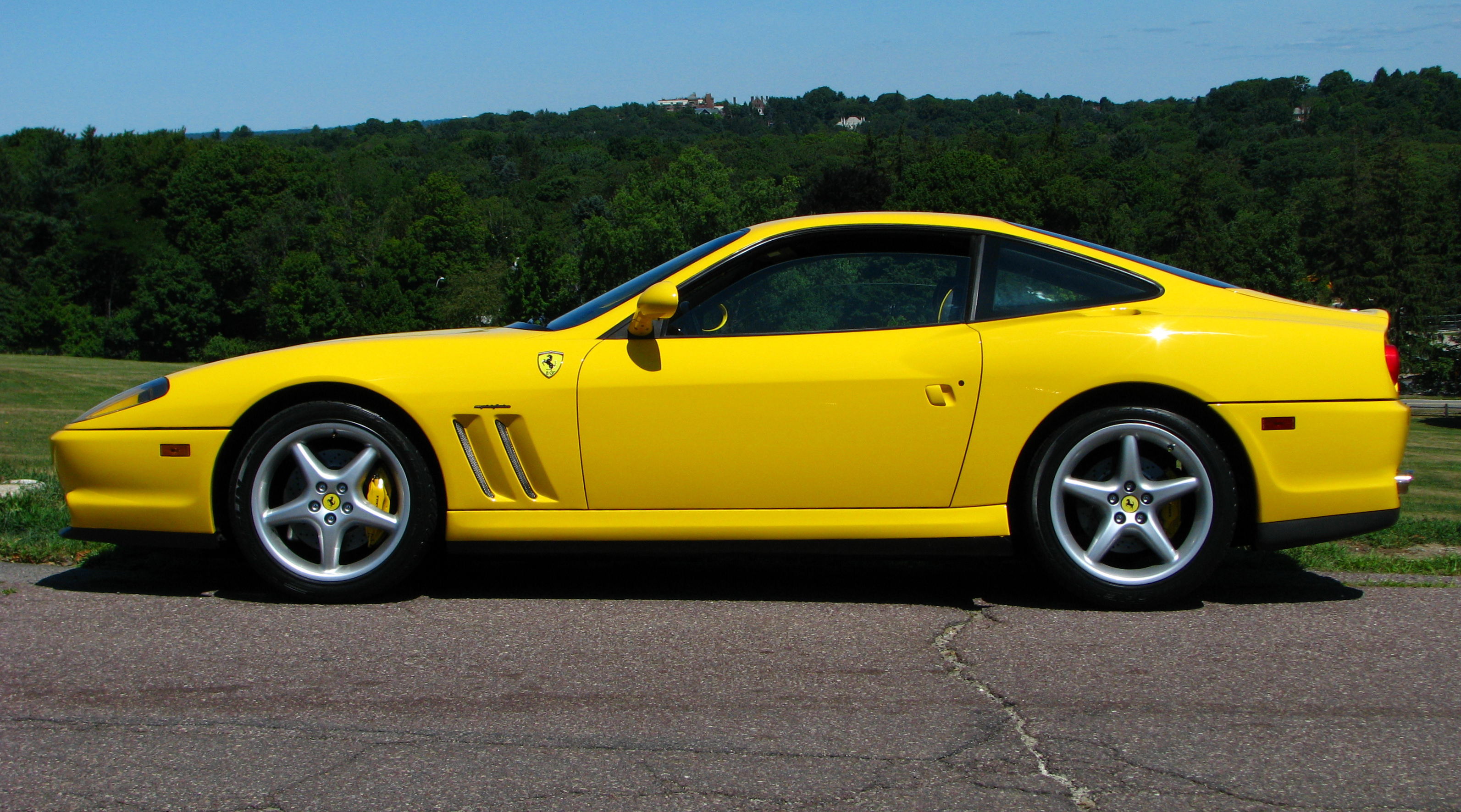 Ferrari 550 Maranello in PM Yellow